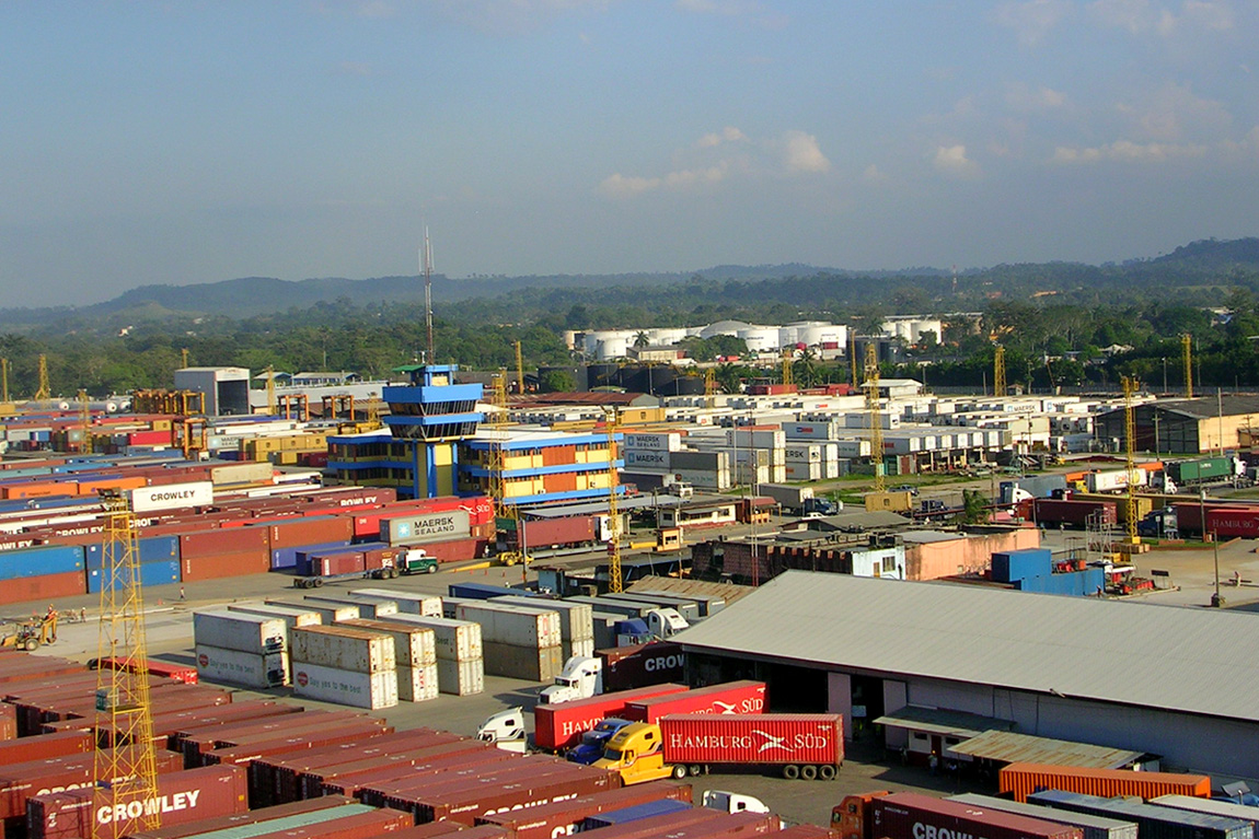 The container port of Santo Tomas, Guatemala.